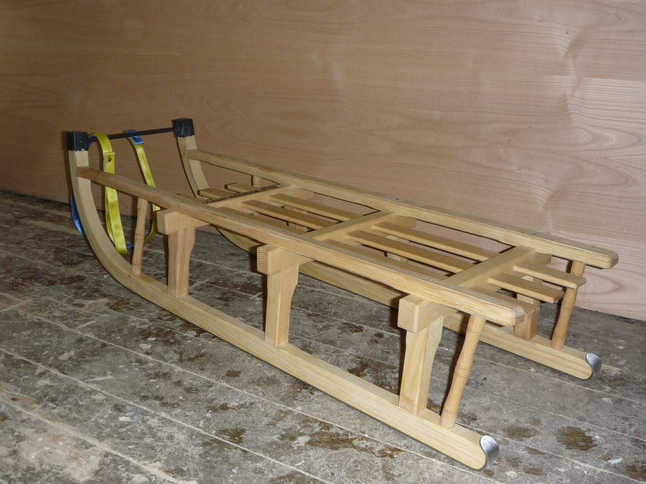 sledge from Arosa/Schanfigg